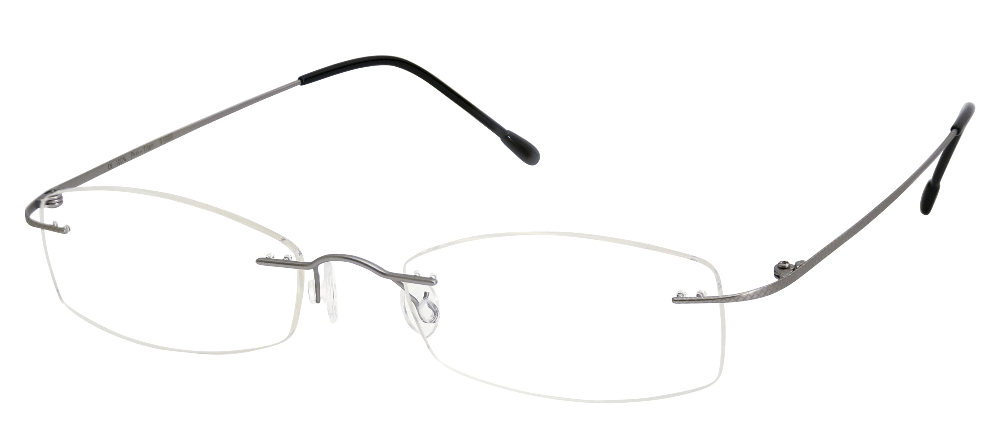 Borderless computer glasses by manufacturer Polycore Optical (model Pro Titan)